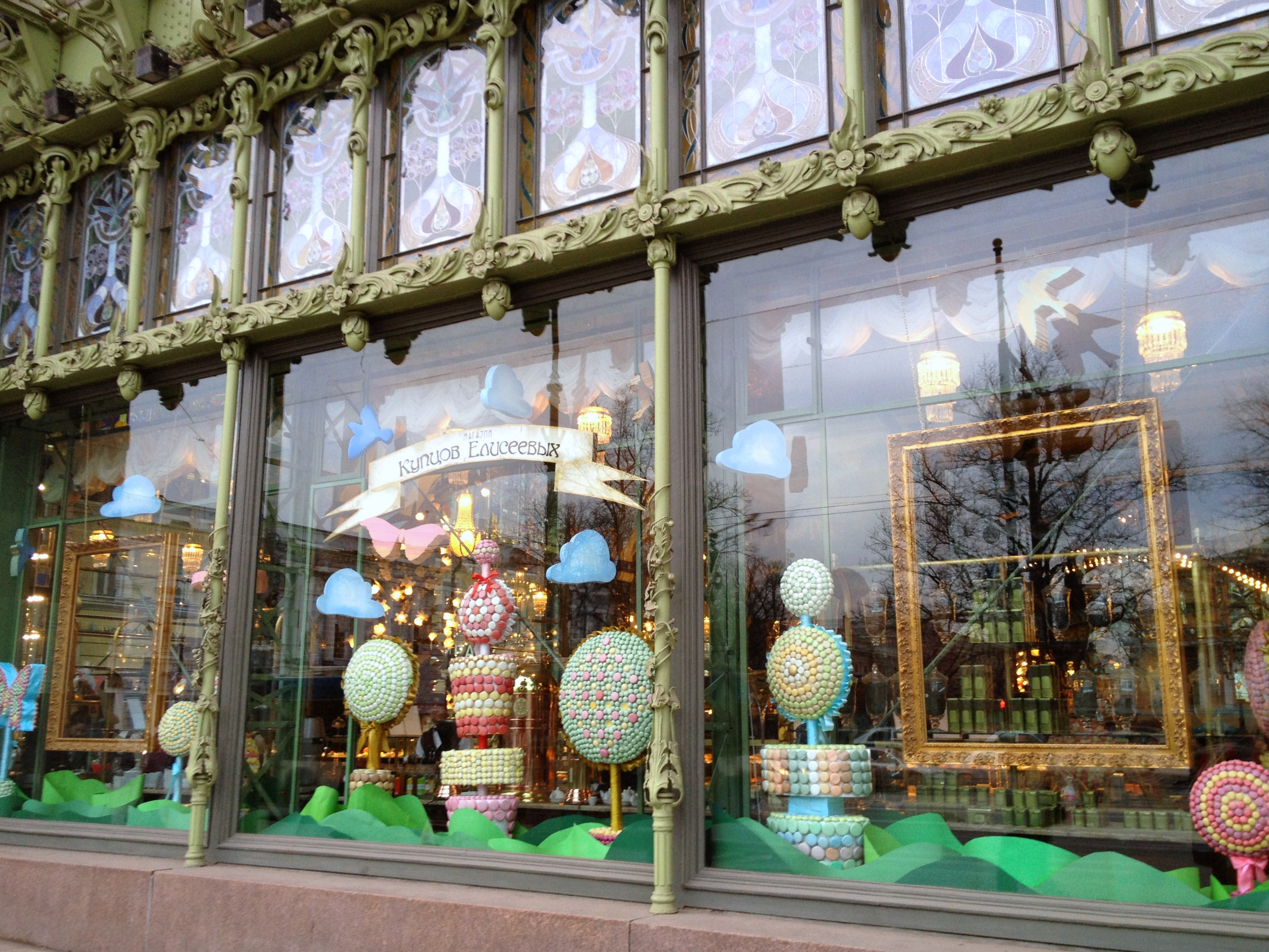 The window display of the Eliseevsky Emporium, St Petersburg, Russia, on 30 March 2012.